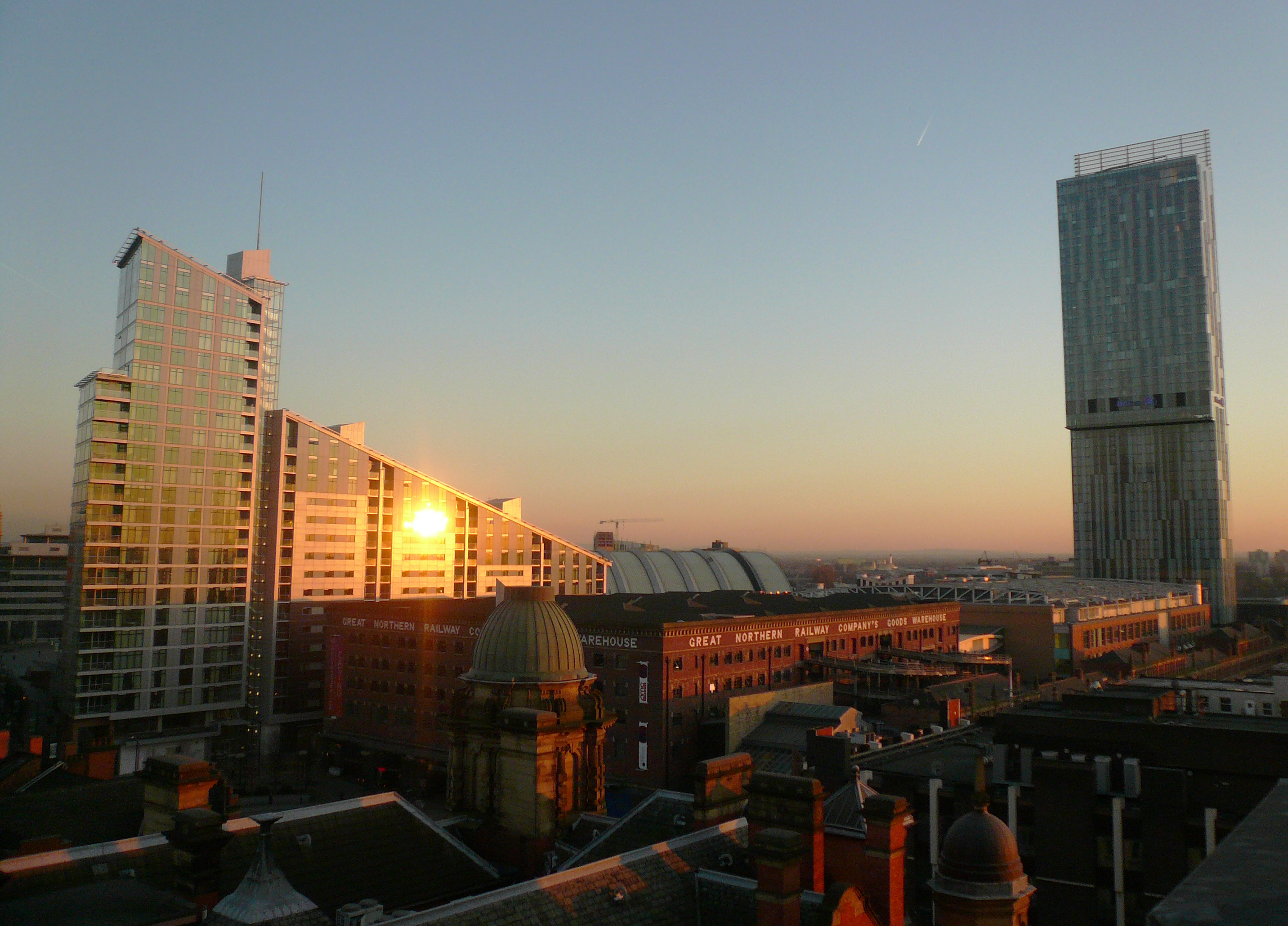 The Great Northn Warehouse, Beetham Tower and the Great Northern Tower, in Manchester City Centre, North West England. This version has had its contrast digitally altered as well as a crop. The original is here.